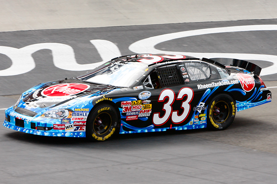 Kevin Harvick's No. 33 Rheem Tankless Water Heaters Chevrolet at Bristol Motor Speedway in 2009